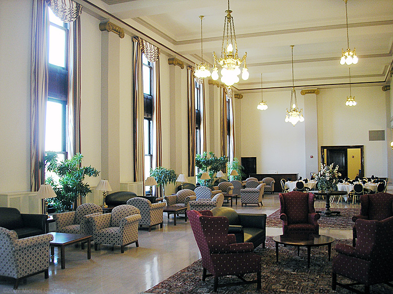 Mellon Financial Hall in Alumni Hall at the University of Pittsburgh. photo by Michael G White